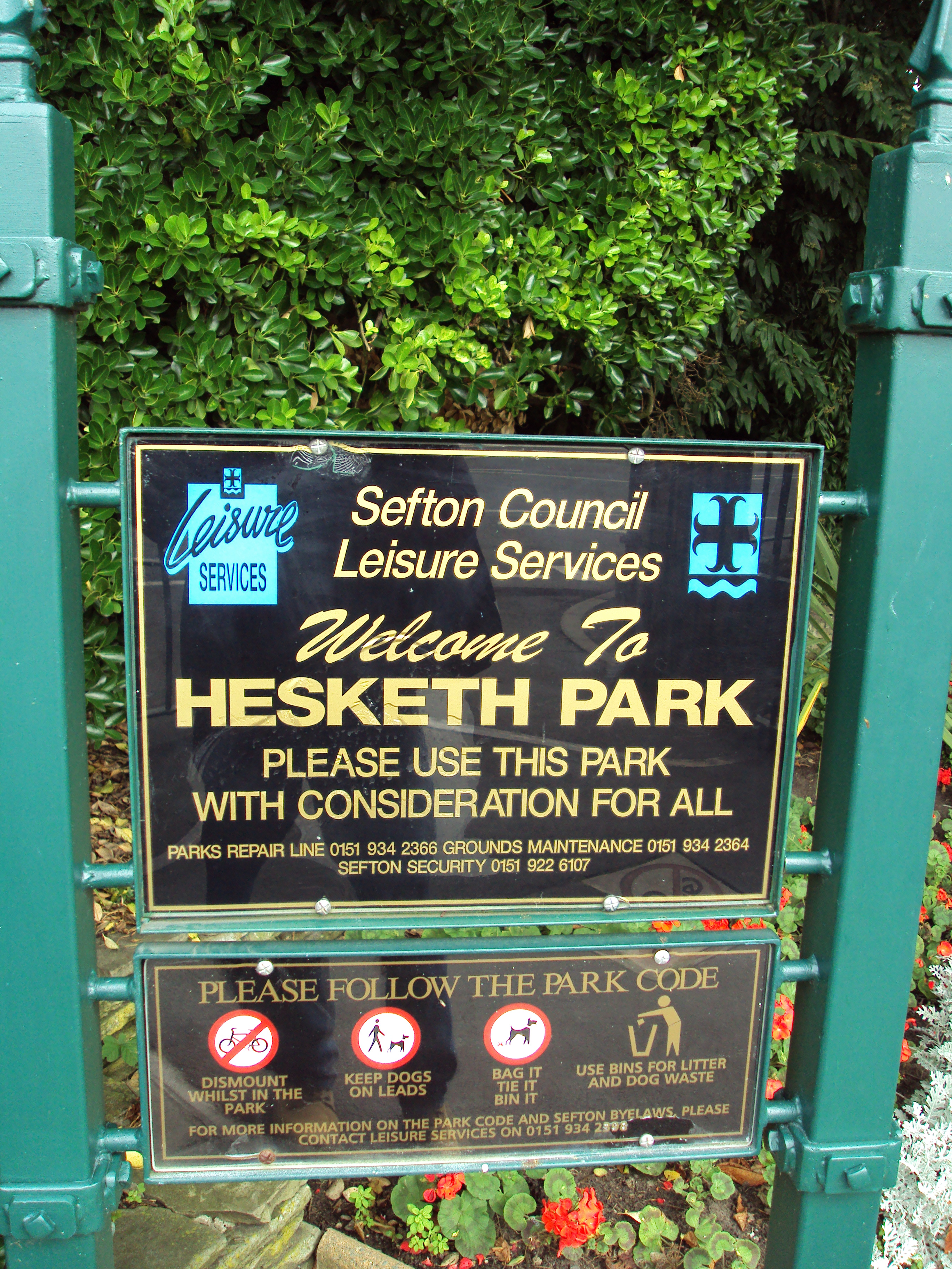 Sign at entrance to Hesketh Park at Park Crescent, Southport, Merseyside, England.